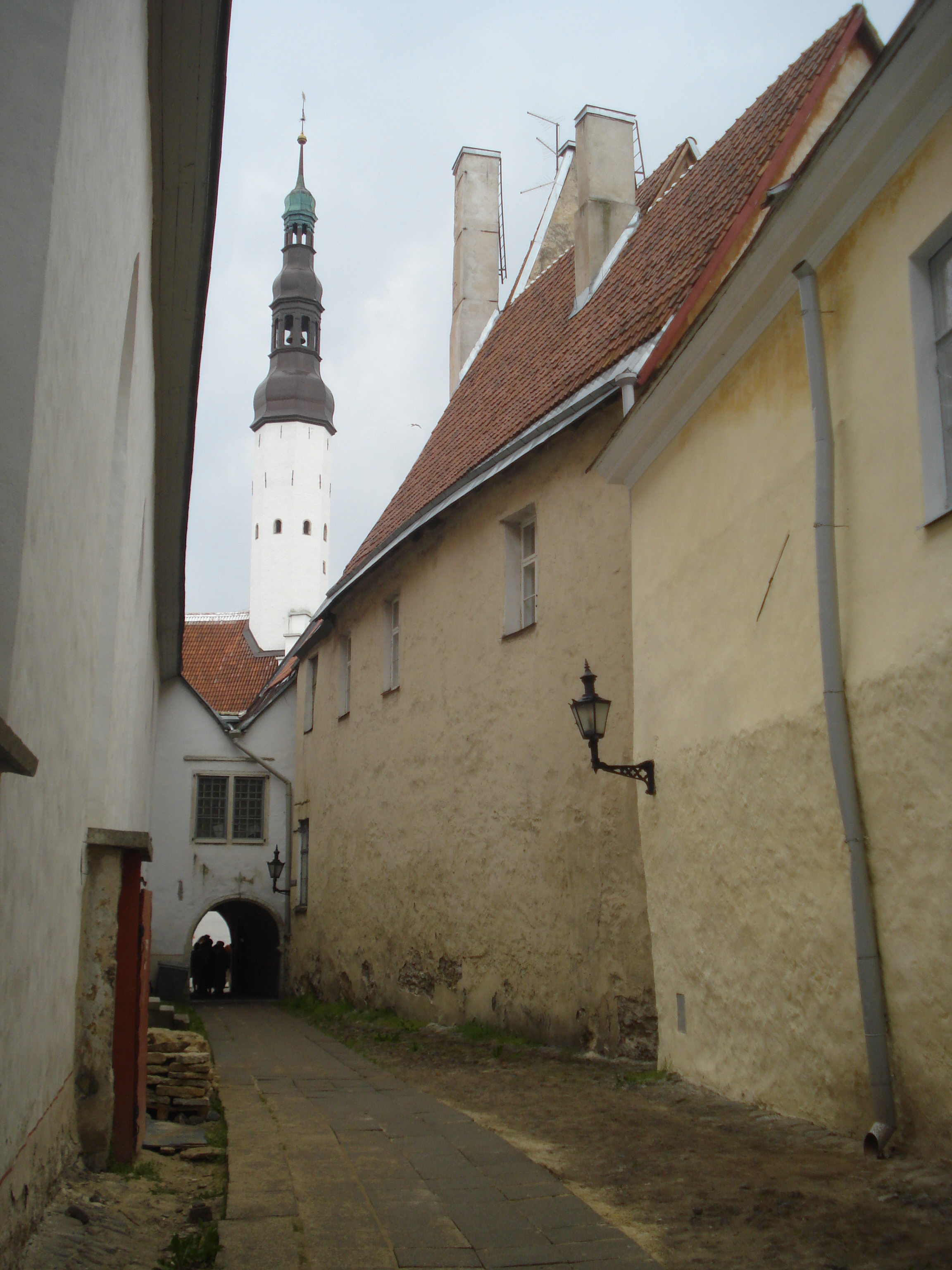 Bell tower of the Church of Holy Spirit in Tallinn. View from the courtyard